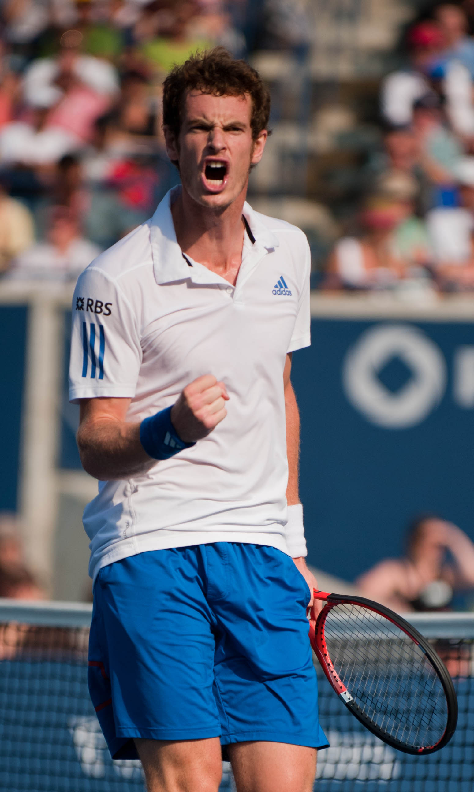 Murray fist pumps a come on after beating Federer